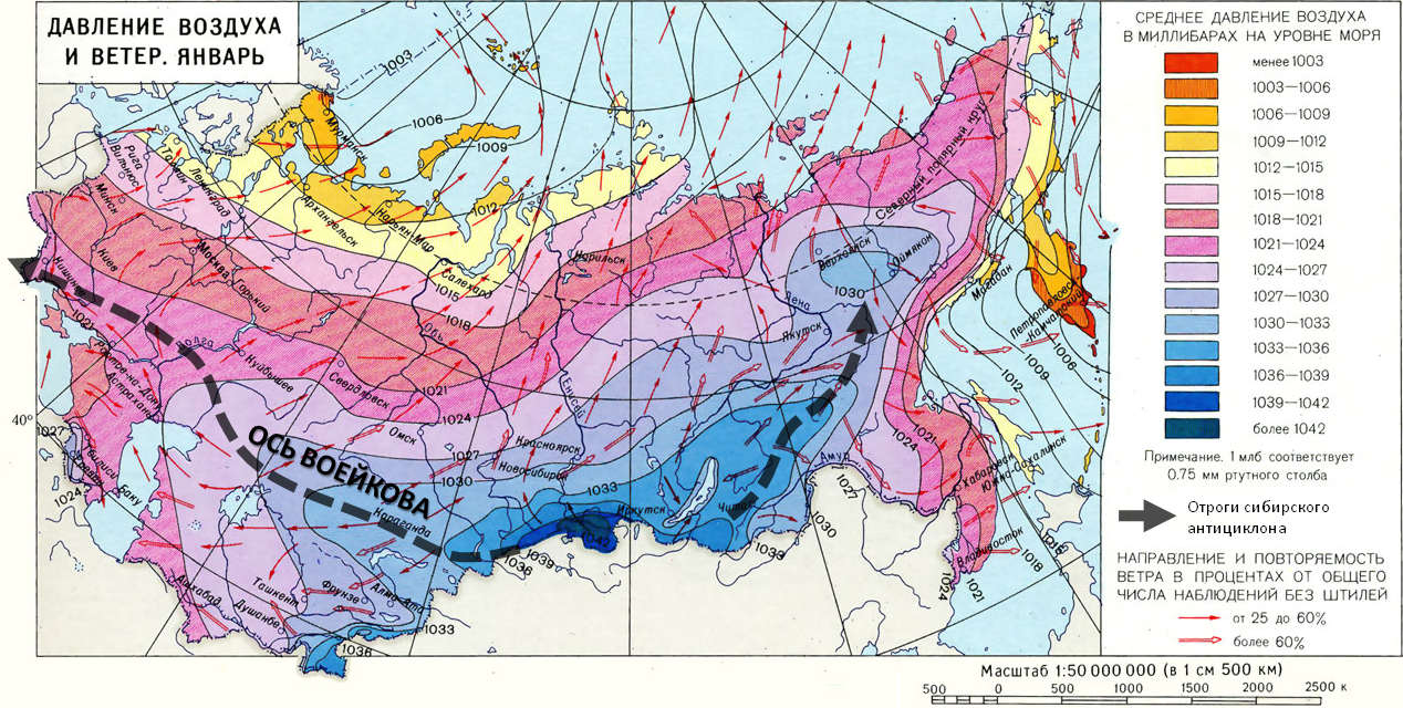 Axis of the Voeikov's high pressure ridge superimposed over the map of atmospheric pressure and wind direction in the winter